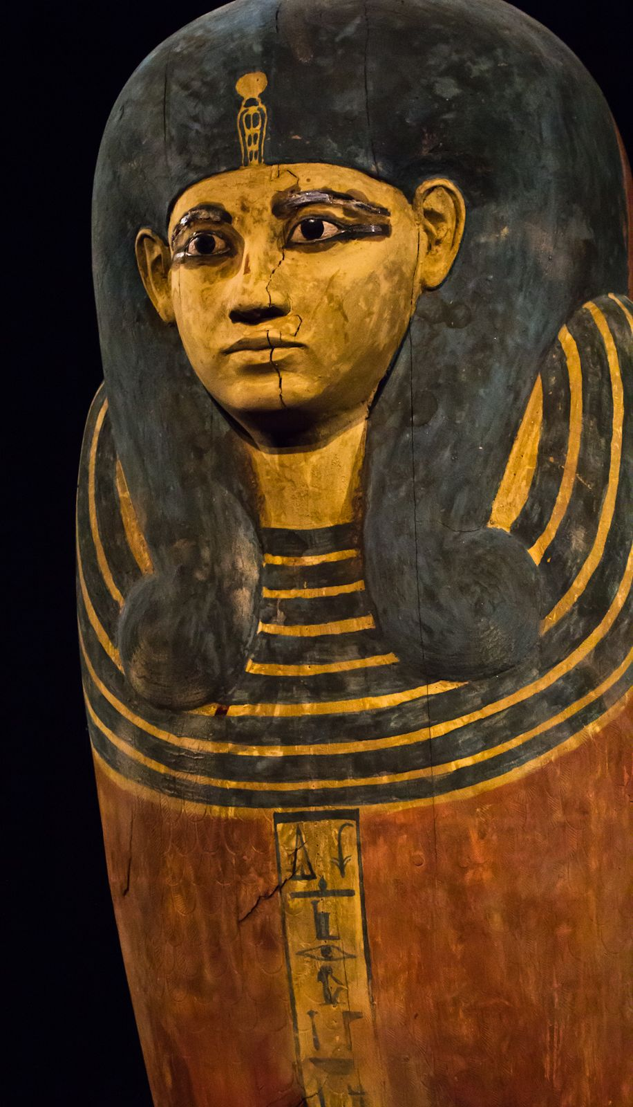 This is the inner coffin of Ahmose-Meritamun who was the chief queen of pharaoh Amenhotep I during the early 18th dynasty period of Egypt's New Kingdom. It was found at Deir el-Bahri in Thebes and is made of cedar. The coffin is part of the permanent collection of the Cairo Museum (JE 53141). Queen Ahmose-Meritamun's official tomb is designated as TT358 where this coffin was found but it was stripped of its gilded gold and semi-precious stones in antiquity. This photo was taken at the King Tut exhibition at the Pacific Science Center in Seattle, Washington State, USA.